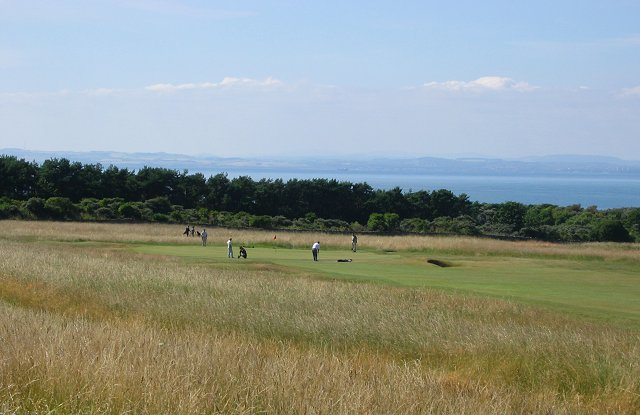 Muirfield. A benign Saturday on the first green. Not like the Saturday afternoon when The Open was last here.